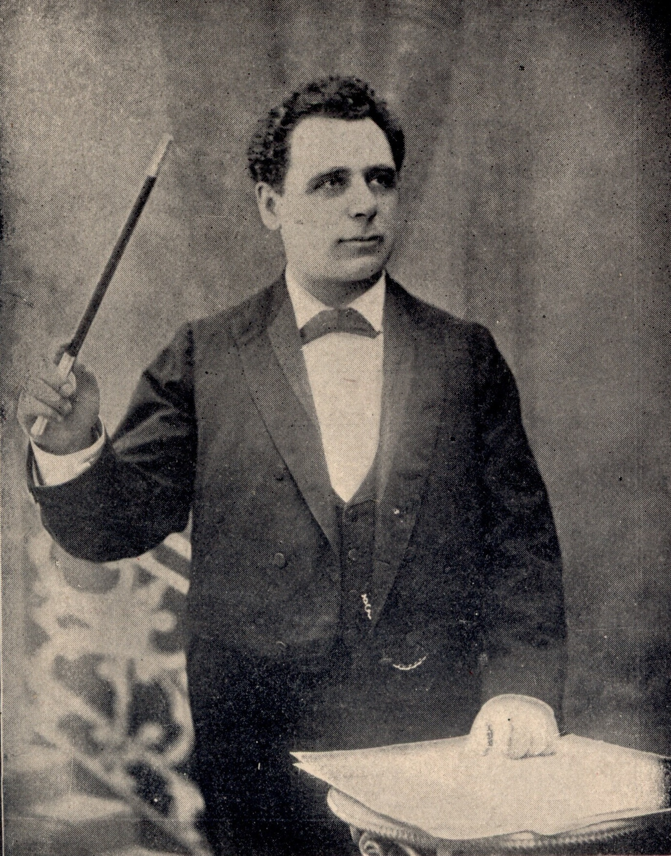 Portrait of Louis Friedsell